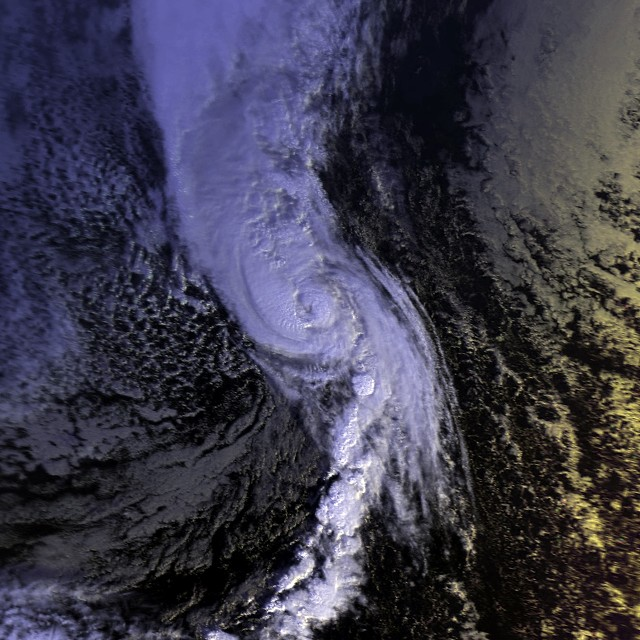 Hurricane Nicole near peak intensity on December 1 at 1007 UTC. This image was produced from data from NOAA-15, provided by NOAA. Maximum sustained winds were 80 mph.